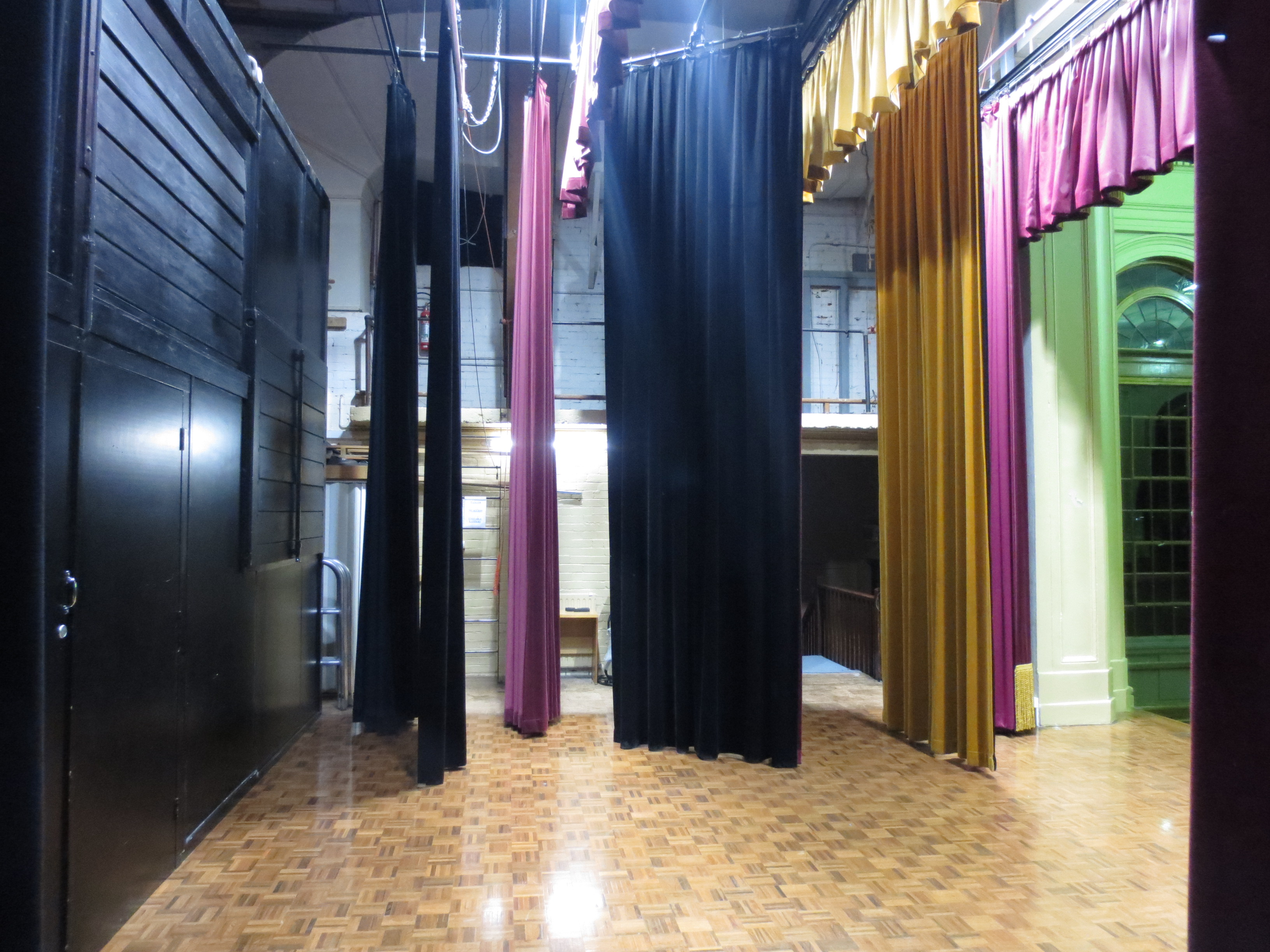 Stage at the Albert Hall in Canberra (20160 taken from stage right looking stage left. Stage curtains show pink black beige coloured curtains